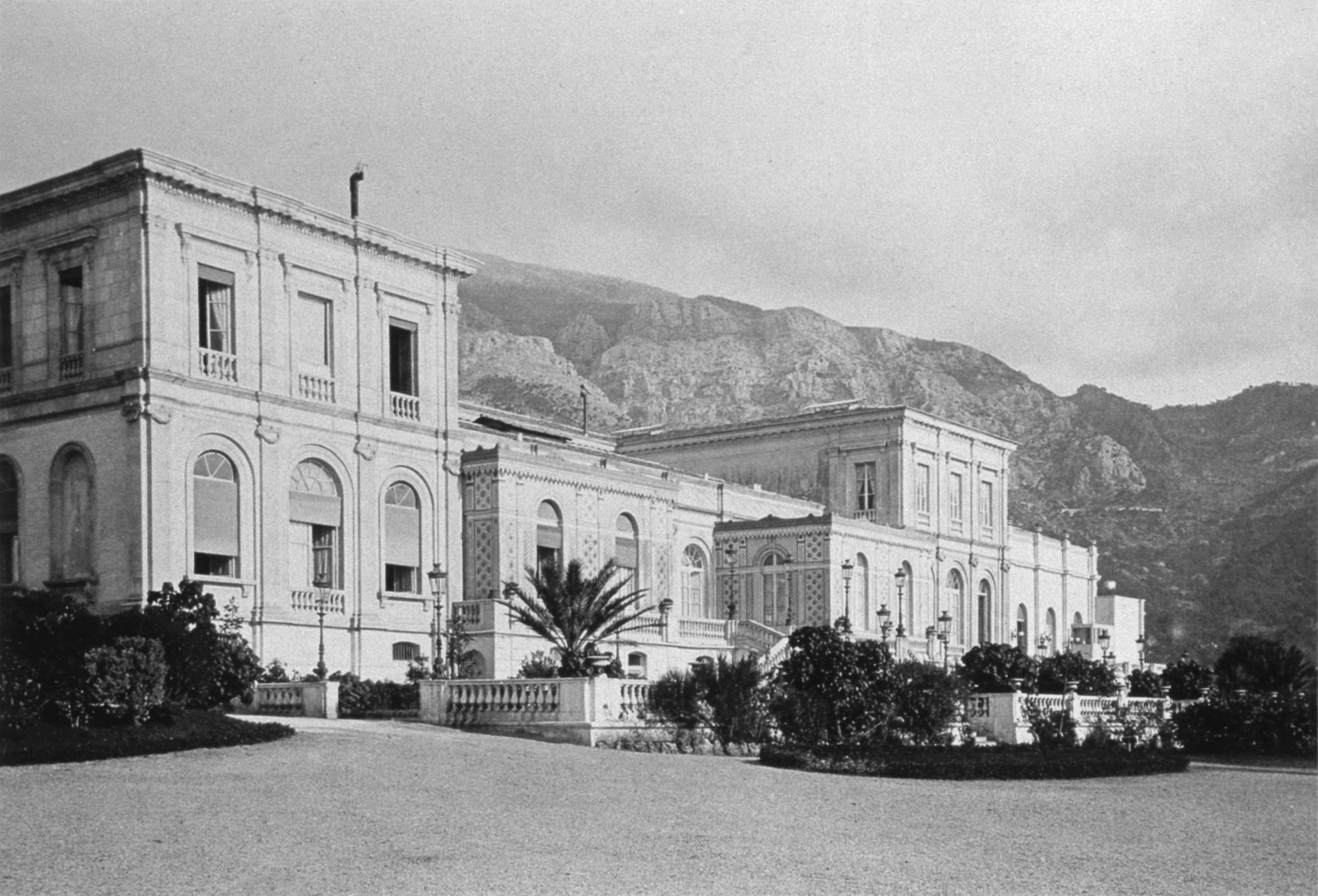 Photograph of the seaside facade of the Monte Carlo Casino before the construction of the Salle Garnier in 1878–1879.